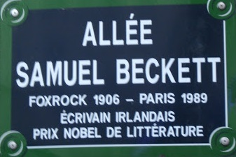 Walk Samuel Beckett, Paris (France) - Philippe Binant Archives.